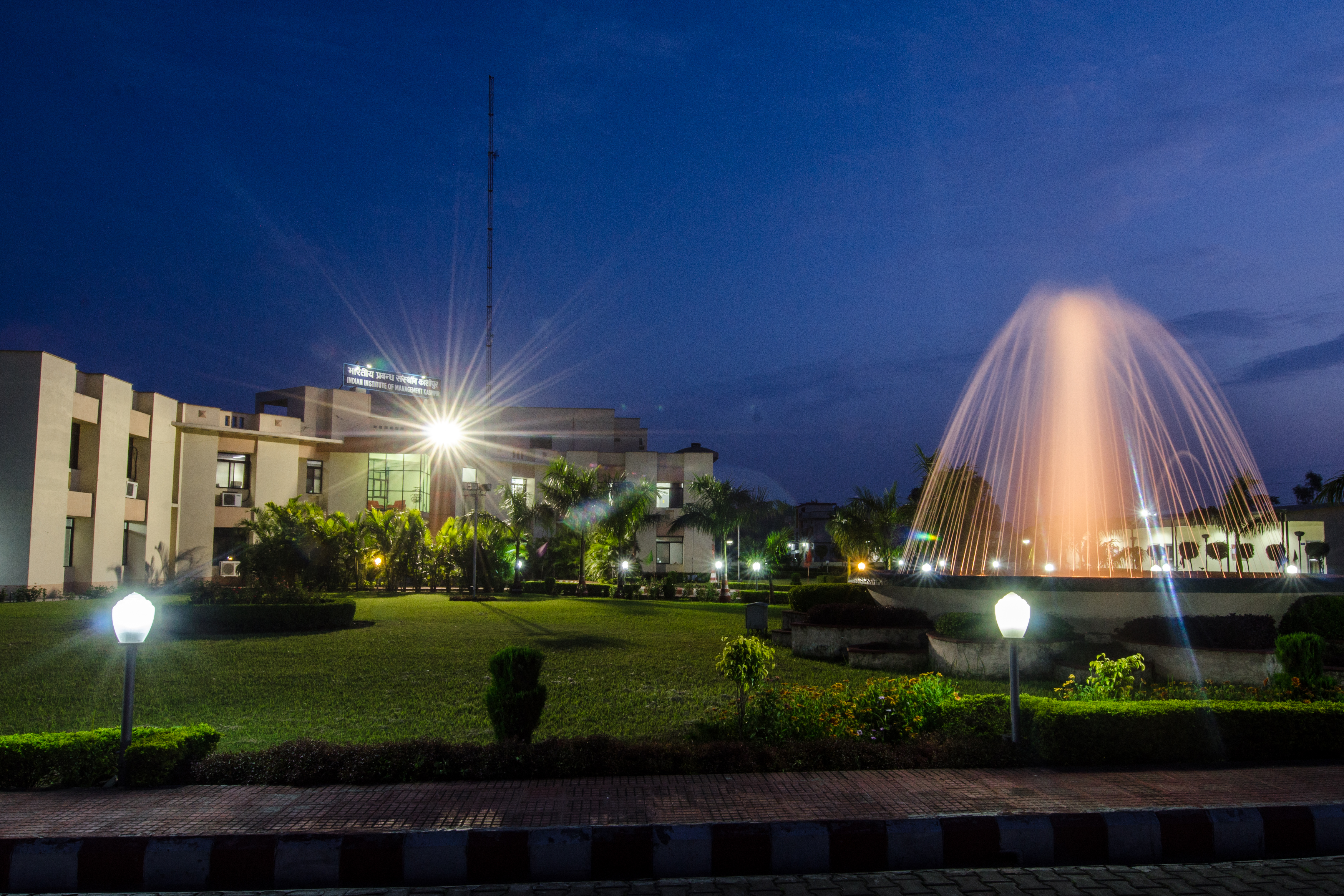 IIM Kashipur Campus. A beauty during night